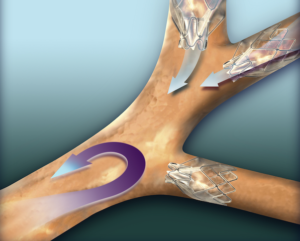 Artist's representation of three Zephyr Endobronchial Valves (EBV) shown placed in bronchial segments.